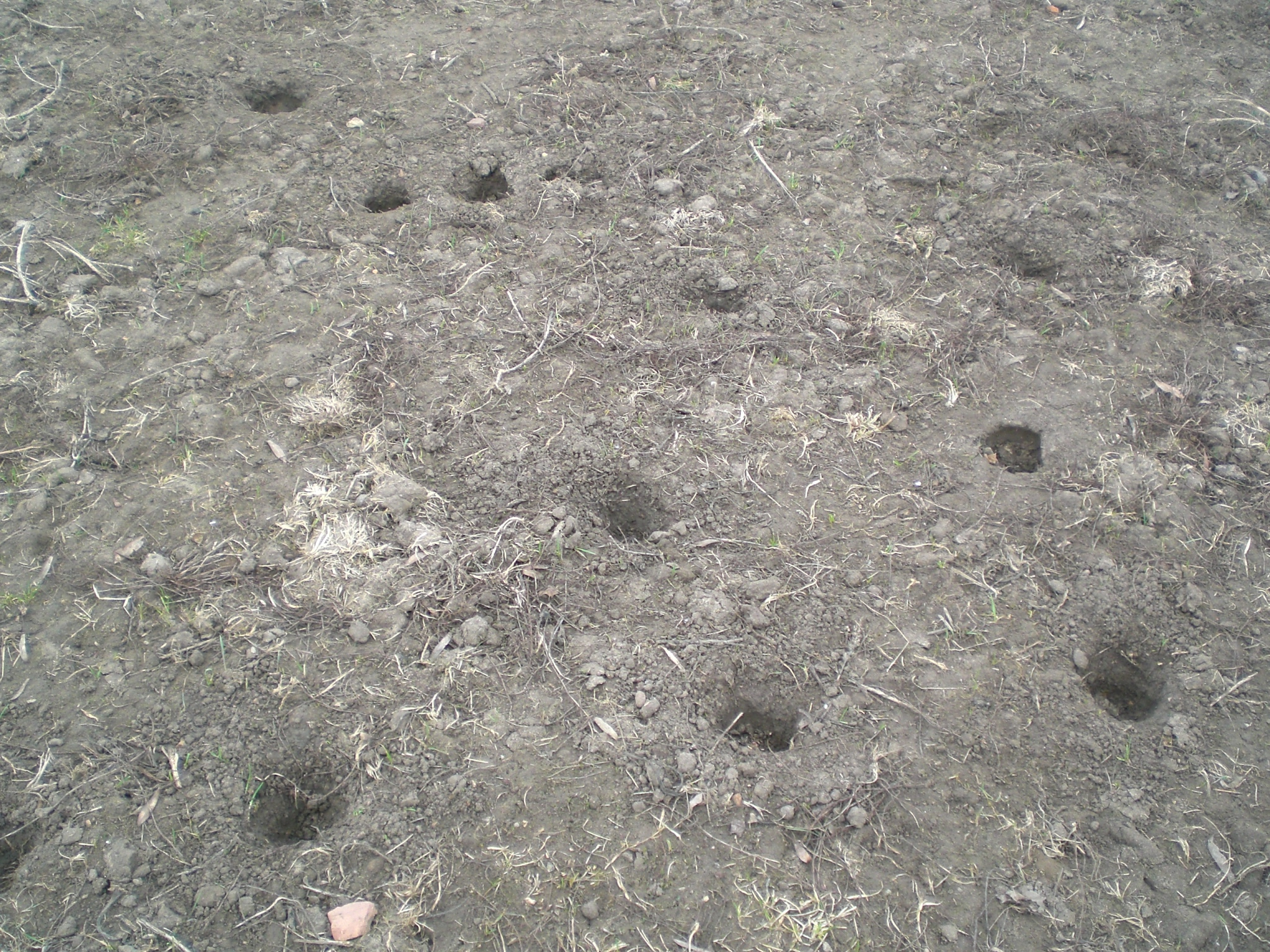 Traces of looting (unauthorised metal-detecting and digging) on a field (photo 18)